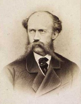 Portray of Danish marine artist Fritz Melbye